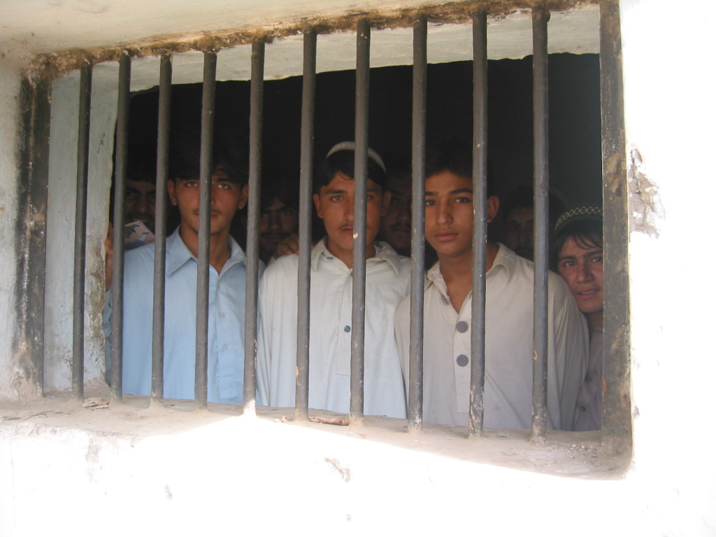 The conditions in the jails in Pakistan are deplorable; most of the prisons are more than 100 years old.